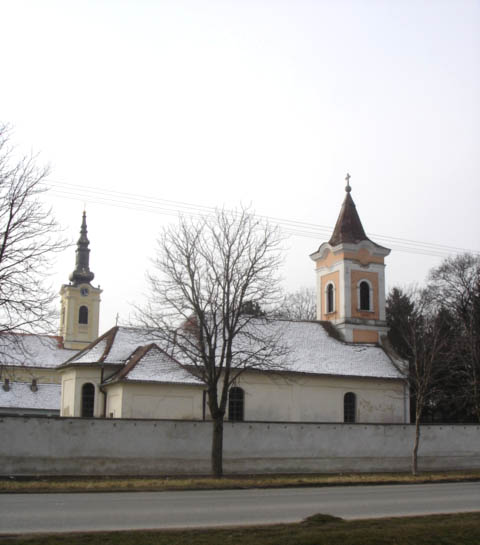 The Catholic Church in Perlez /Vojvodina /Serbia